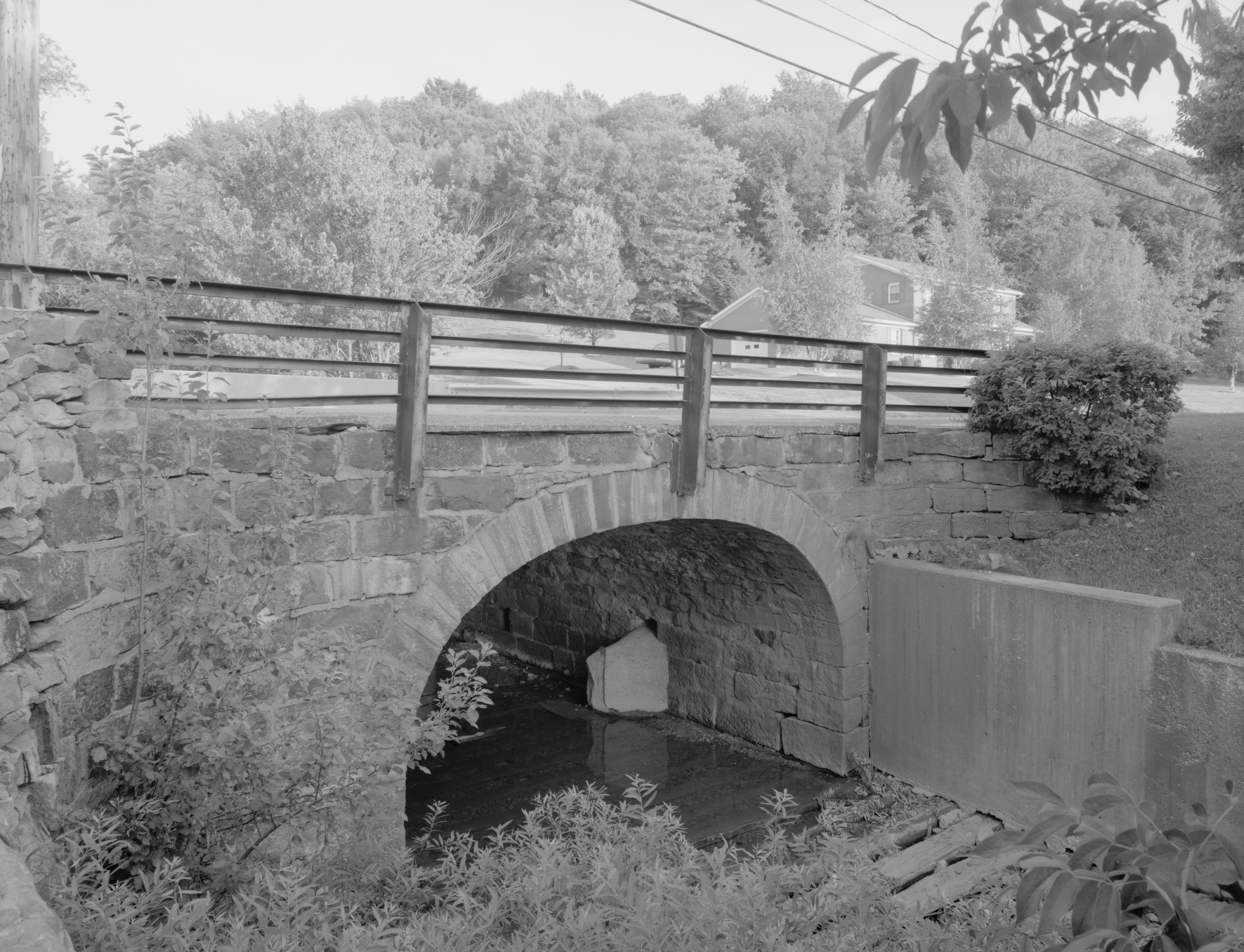 Western side of the Lilly Bridge, which carries Pennsylvania Route 53 over Burgoon Run in Lilly, Pennsylvania, United States. Built in 1832, it is listed on the National Register of Historic Places.